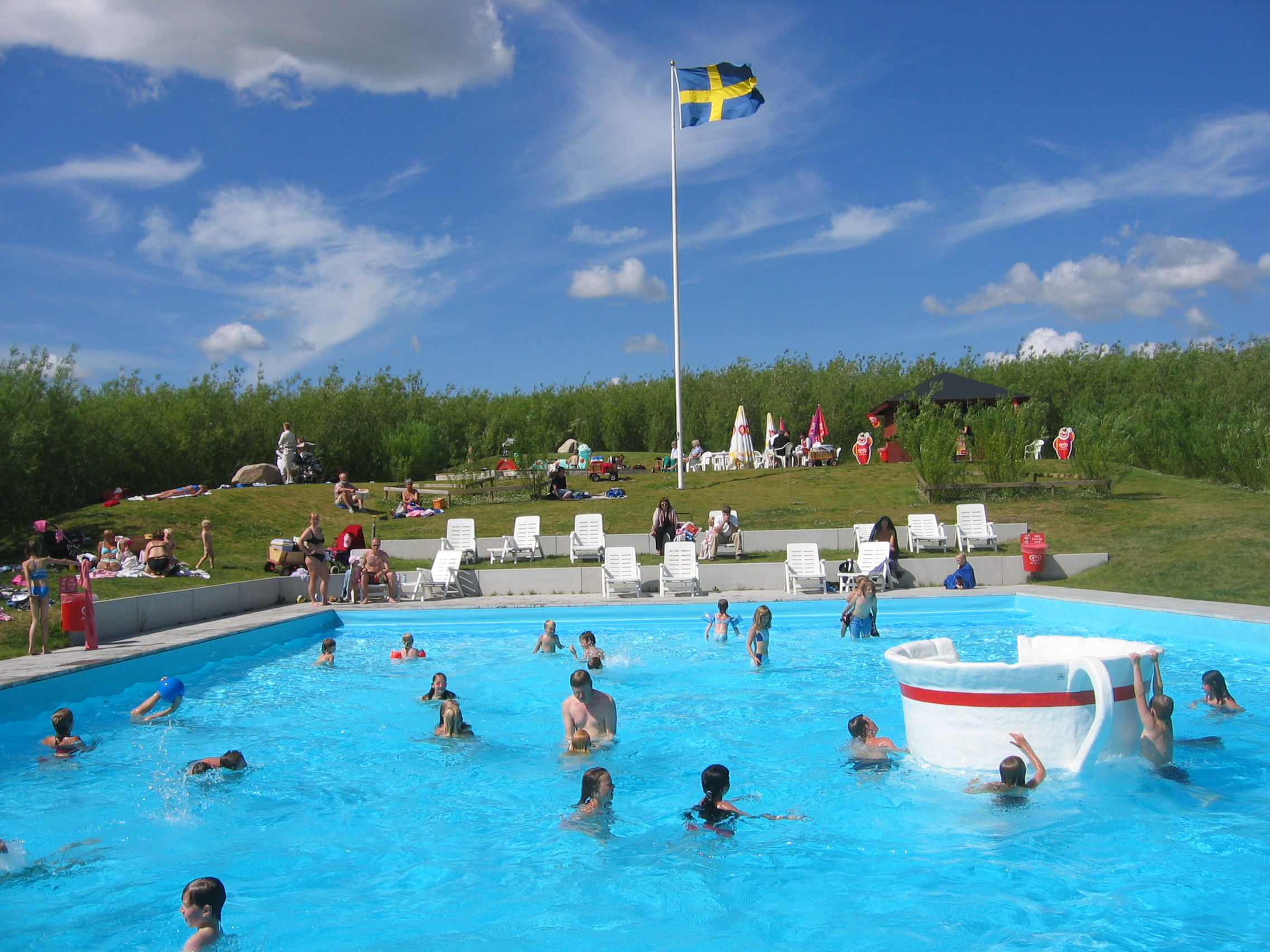 The pools in Ystad Djurpark